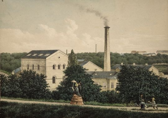 Copenhagen Waterworks as seen from the Western Rampart in Copenhagen, Denmark